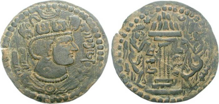 Coin of Turk-Shahi, King Tegin